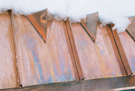 Copper Armor Panel Guard demonstrating snow retention on a copper roof.